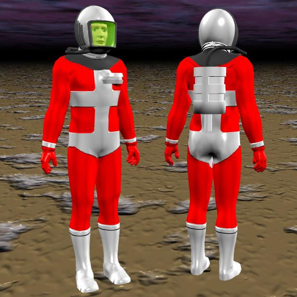 2 Gerry Anderson UFO series aliens on a desert planet. I made the image with CGI.